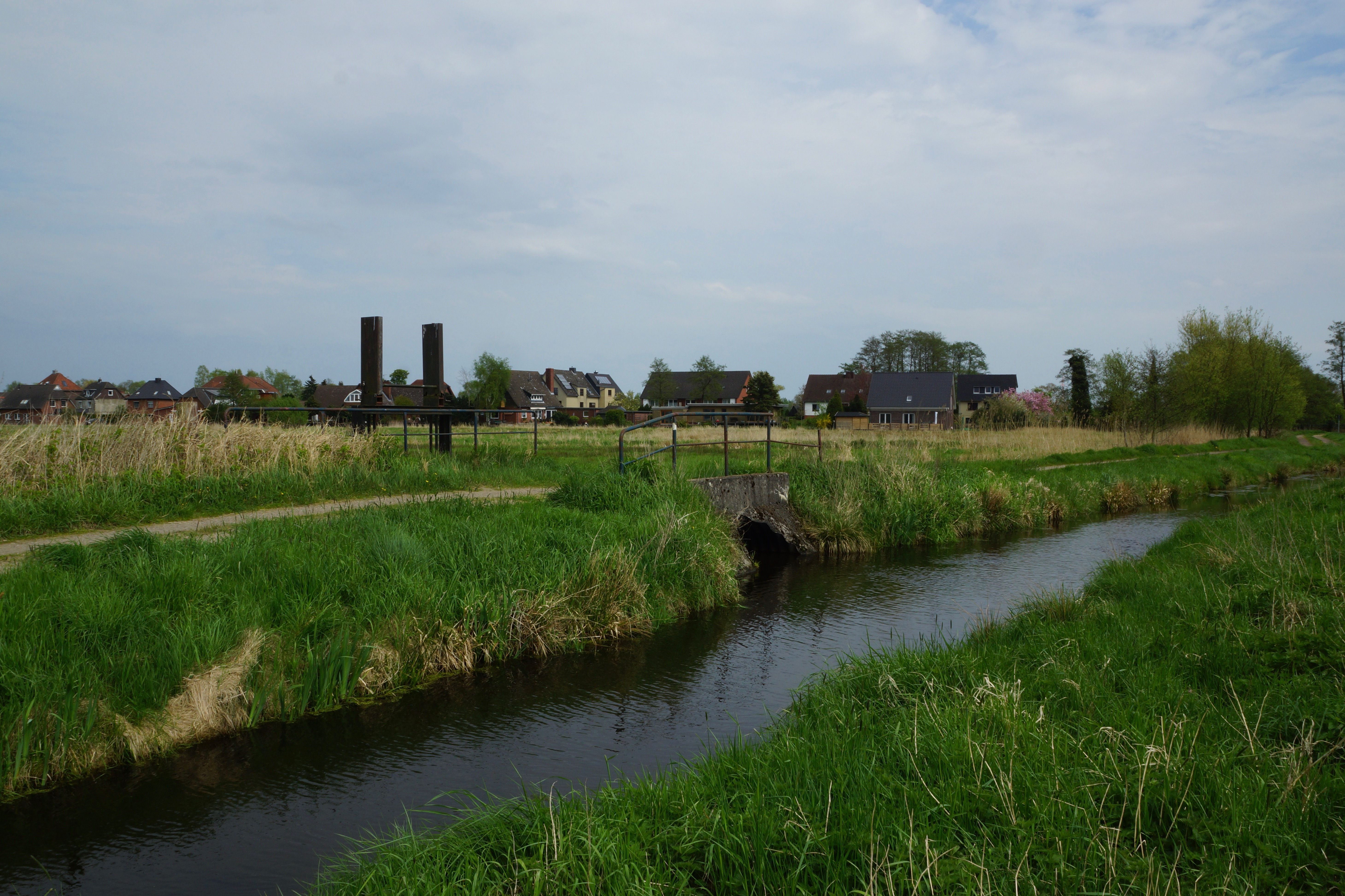 Hamburg (Neuland), Germany: The Fünfhausener-Landweg-Canal, the Fünfhausener-Landweg and the town of Fünfhausen on the background